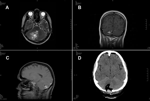 Magnetic resonance (MR) and computed tomographic images of the brain of a 51-year-old woman infected with Taenia crassiceps tapeworm larvae, Germany. A) Transverse view, T1-weighted MR image. The 30 × 30 mm parasitic lesion with perifocal edema is located in the right hemisphere of the cerebellum and caused ataxia, headache, and nausea. The fourth ventricle is compressed. B) Coronal view, T2-weighted MR image. The cyst-like appearance of the parasitic tissue is clearly visible. This lesion can be misinterpreted as cerebral echinococcosis, racemose cysticercosis caused by a Taenia solium tapeworm, or coenurosis. C) Sagittal view, MR image with contrast enhancing agent. D) Transverse view, computed tomographic image after surgery. No residual parasitic masses, only the parenchymal defect in the cerebellum after resection of T. crassiceps tapeworm larvae, are visible.